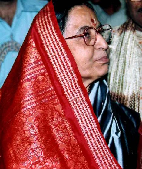 Edited version of Image:Vin7.jpg (now moved to Commons as Image:Pratibha Patil.jpg) by the photographer Jaisingh Rathore.